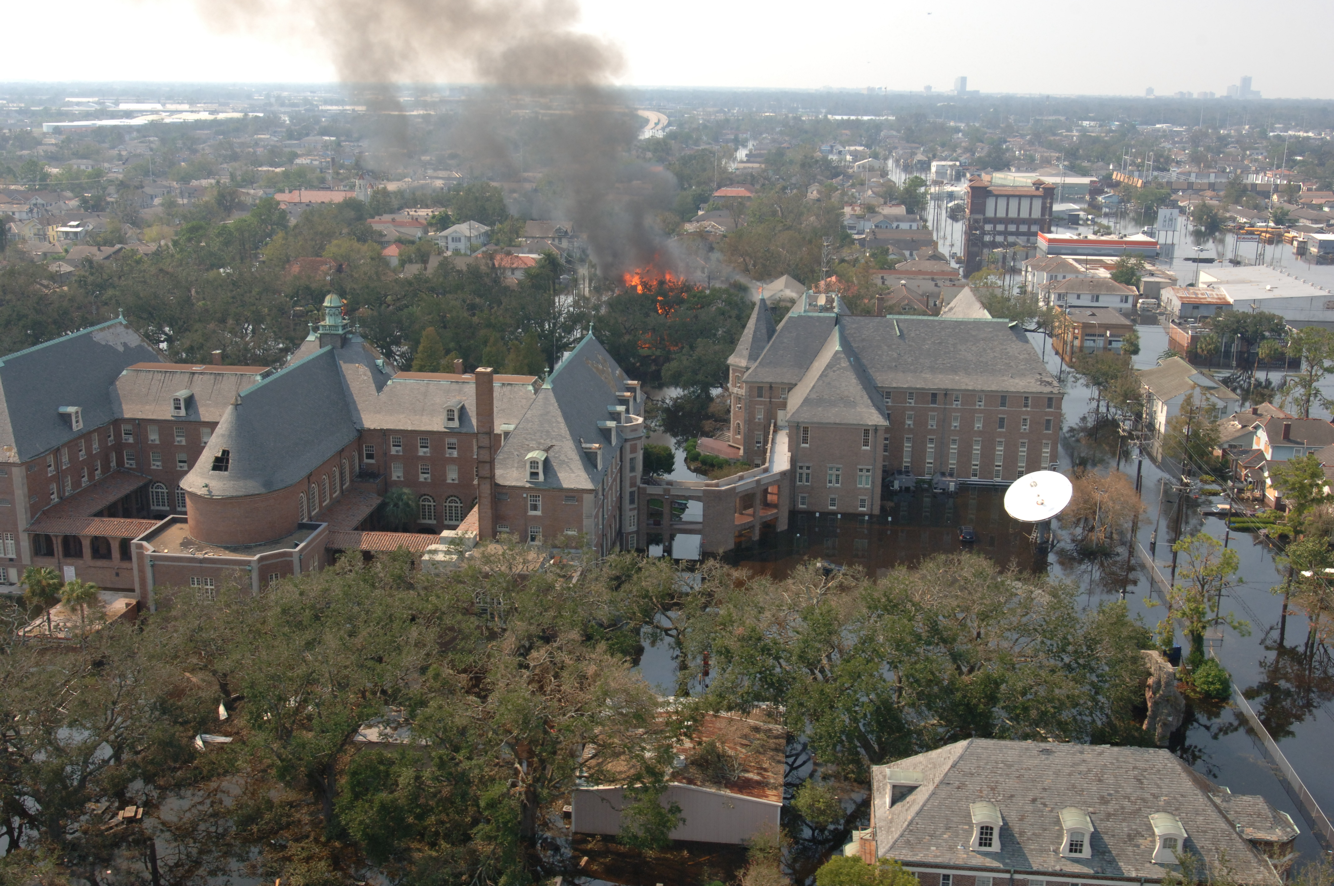 New Orleans, LA, September 2, 2005 -- Fire in flooded New Orleans, Louisiana. The view is from the air with Notre Dame Semenary in the foreground; block on fire across Carrollton Avenue seen further back. Photo by Jocelyn Augustino/FEMA